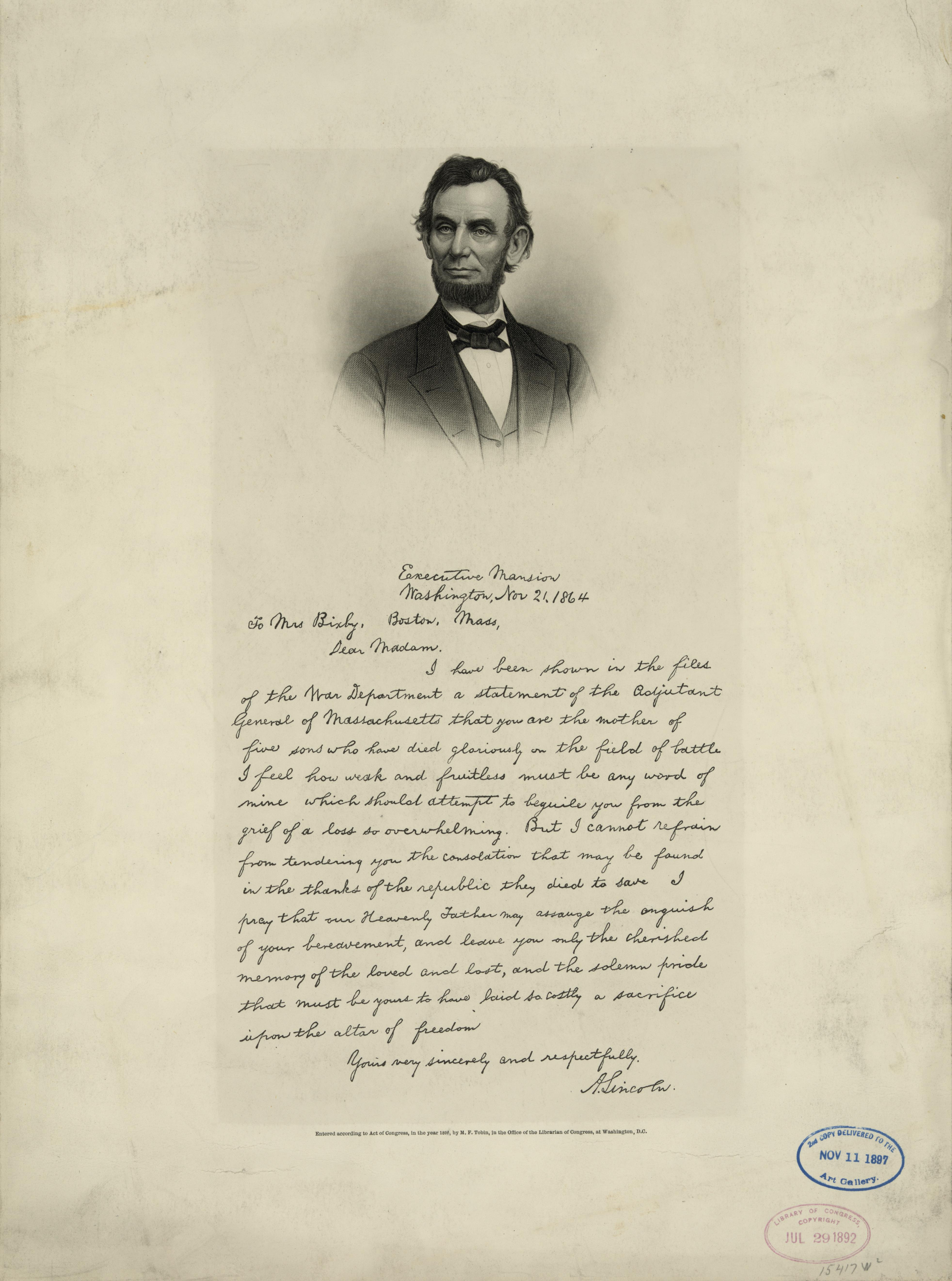 Image of a lithographic copy of the Bixby letter with an engraved image of Abraham Lincoln deposited at the Library of Congress for copyright purposes. Varies slightly from the original text published in Boston newspapers in 1864.